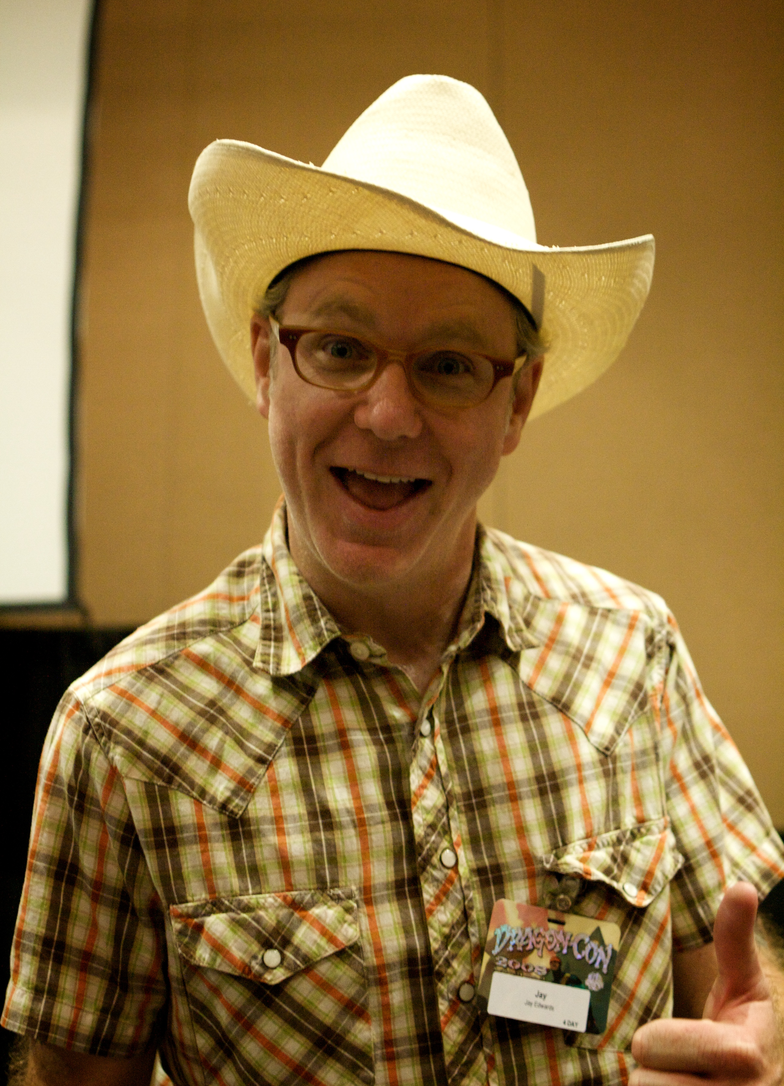 Jay Wade Edwards at DragonCon 2008